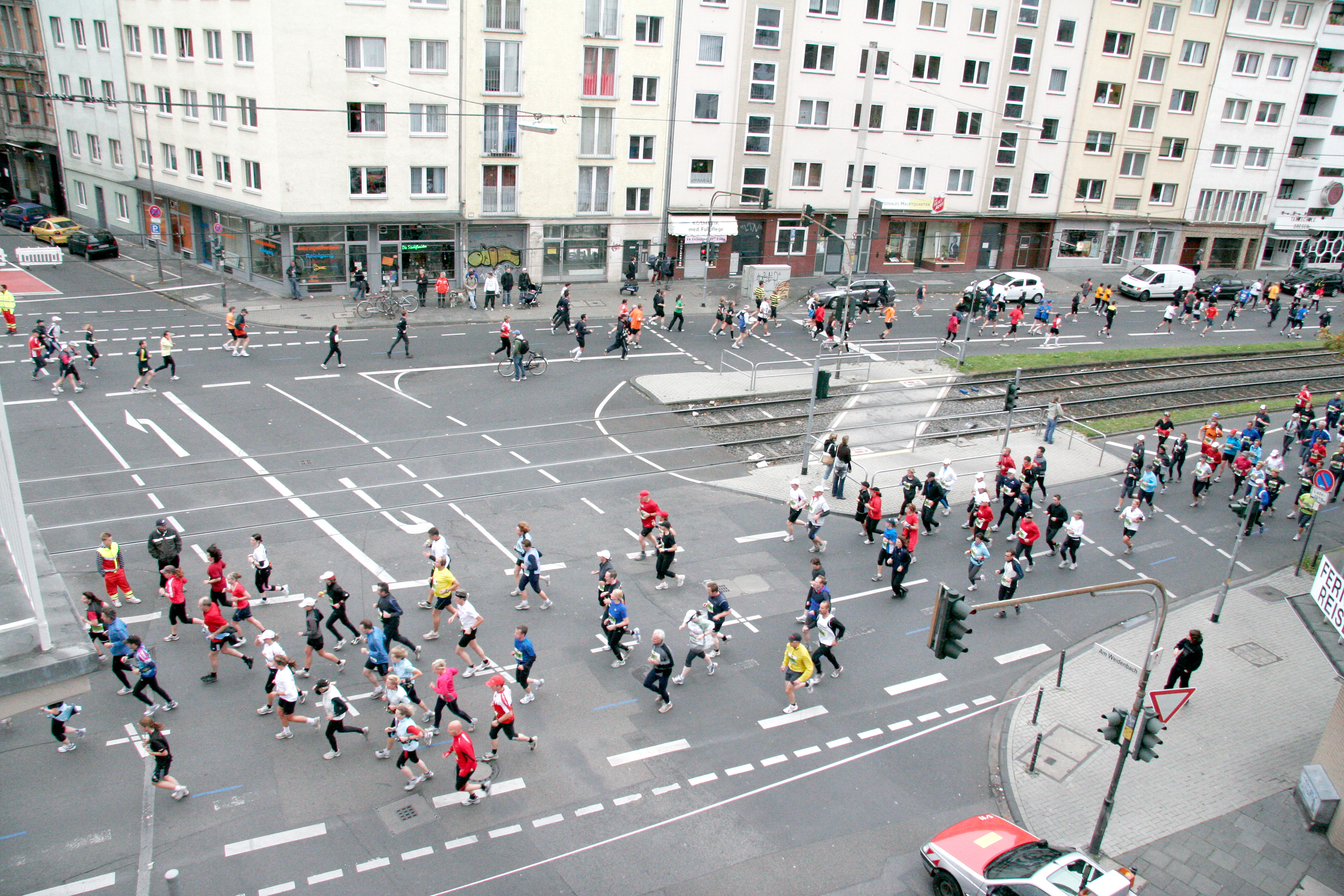 Picture of the Cologne Marathon 2008